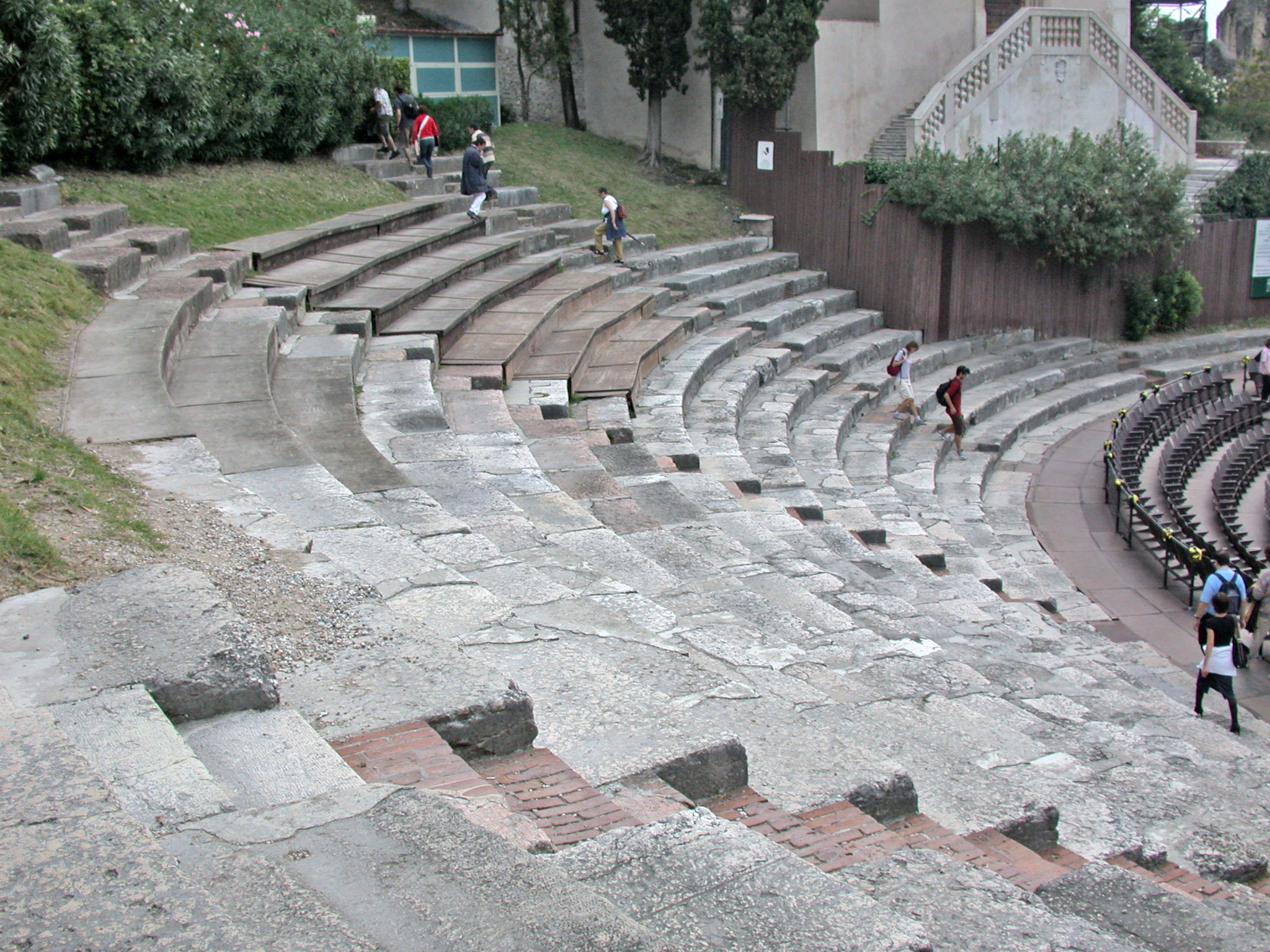 Verona, roman theater